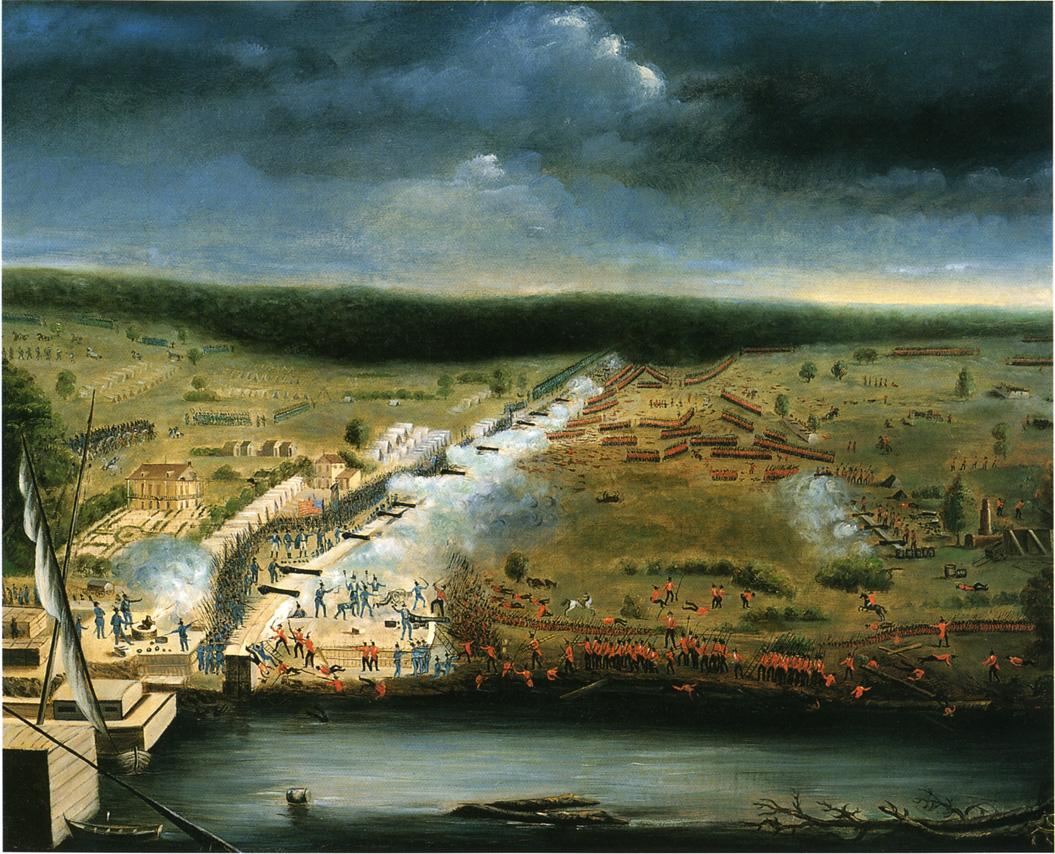 The Battle of New Orleans at Chalmette, 1815.